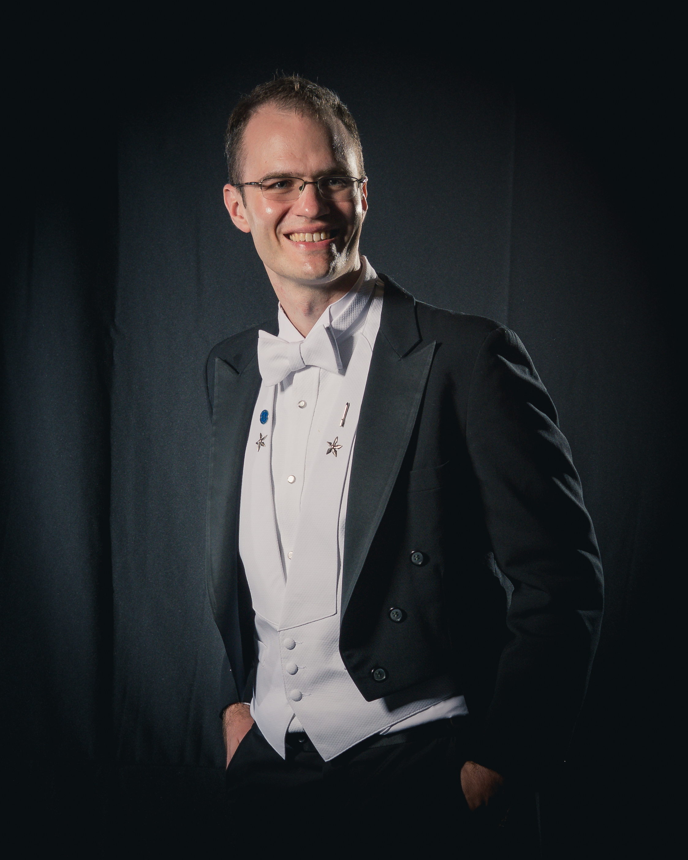 Portrait photoshoot at Worldcon 75, Helsinki, before the Hugo Awards: Max Gladstone